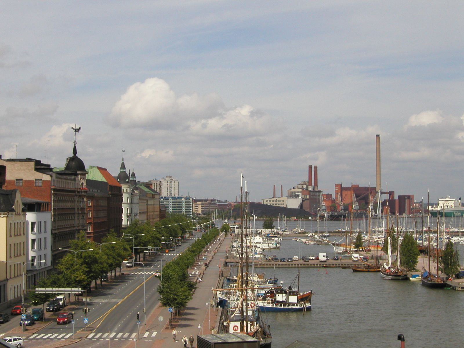 Pohjoisranta promenade in Kruununhaka district, Helsinki. On the background power plants of Hansasaari (left) and Suvilahti (right)